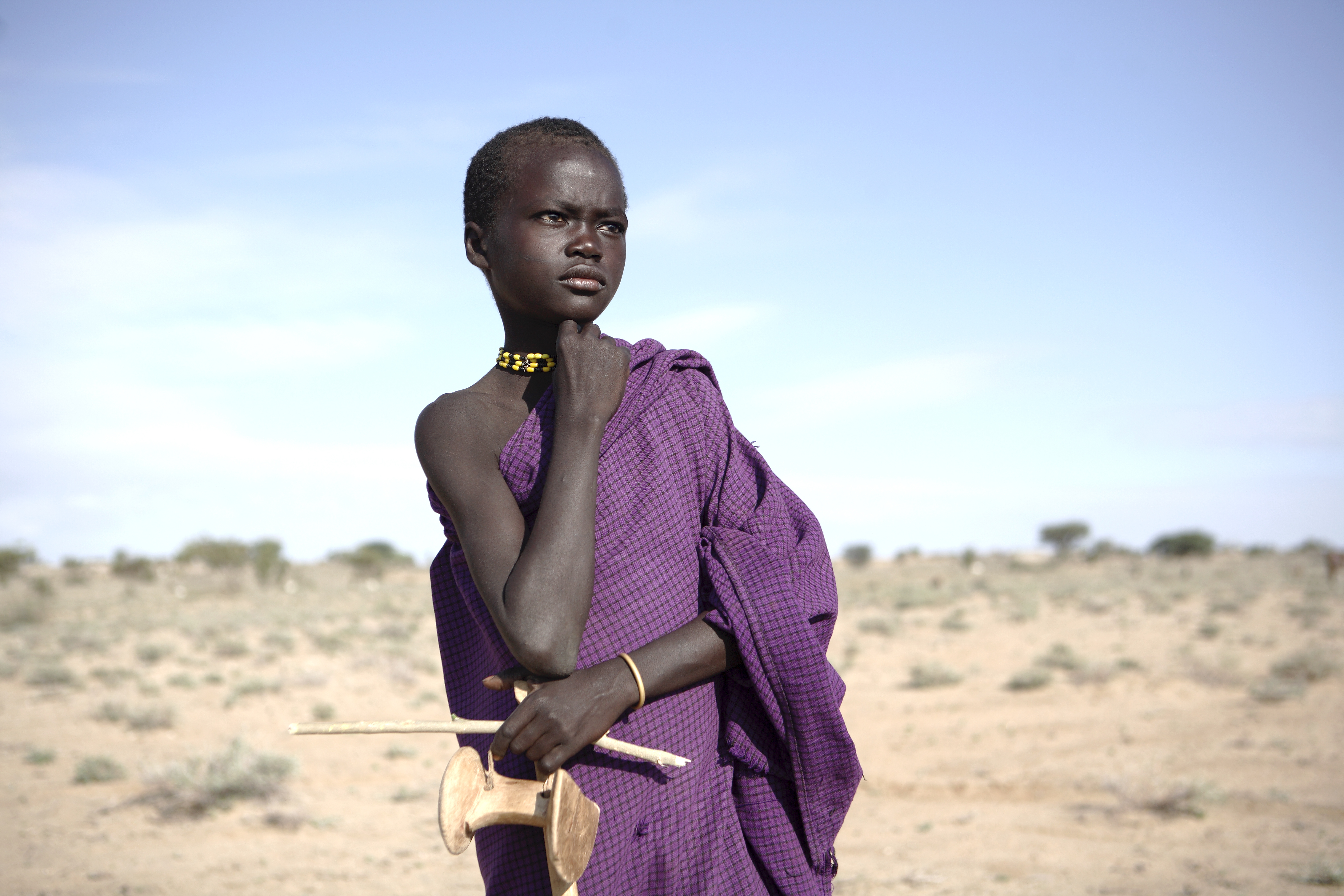 Nangiro (12) from Turkana in northern Kenya. This region has been severely affected by climate change and suffers regular droughts. (Photo: Ross McDonnell)